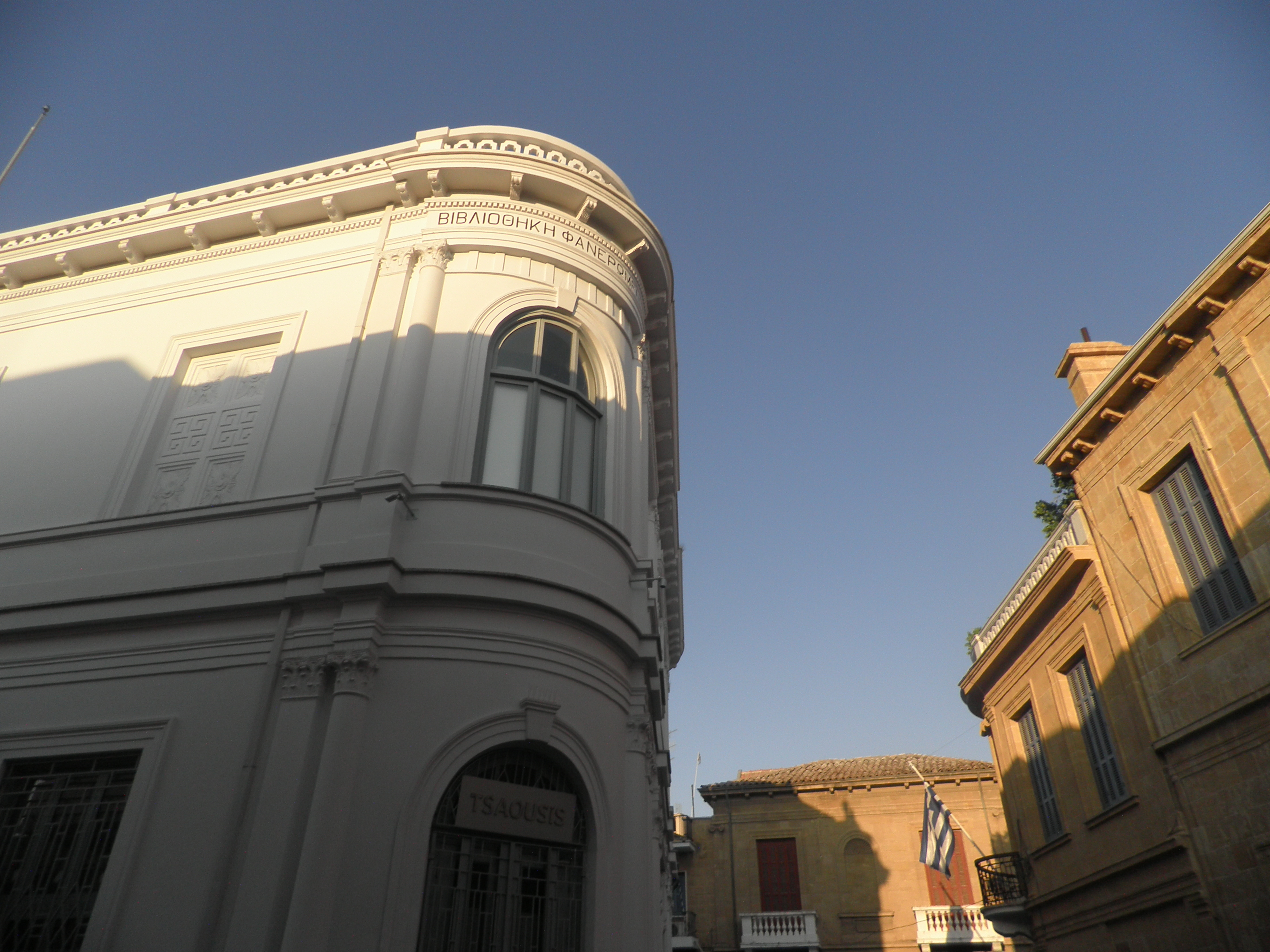 Faneromeni Square Nicosia